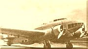 Italian Savoia-Marchetti SM.79B bomber